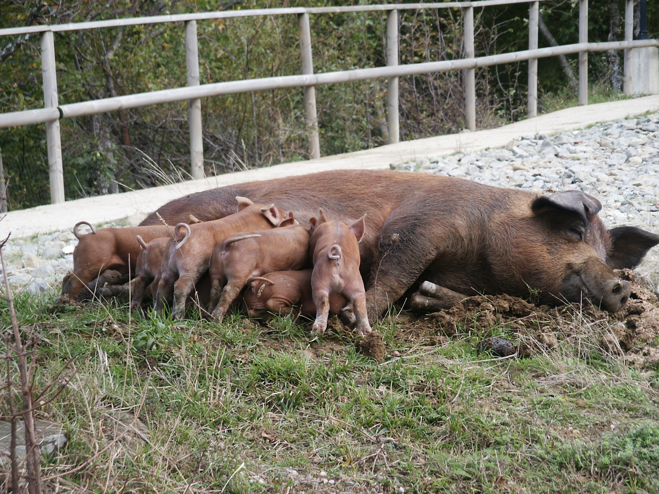 Sow with piglets, apparently of the Mora Romagnola breed